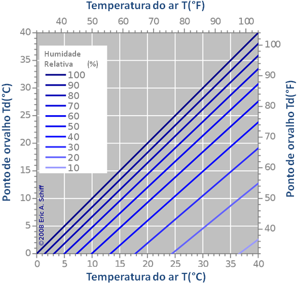 Graph of Dewpoint vs. Air Temperature at Varying Relative Humidities. Based on the Magnus-Tetens approximation.